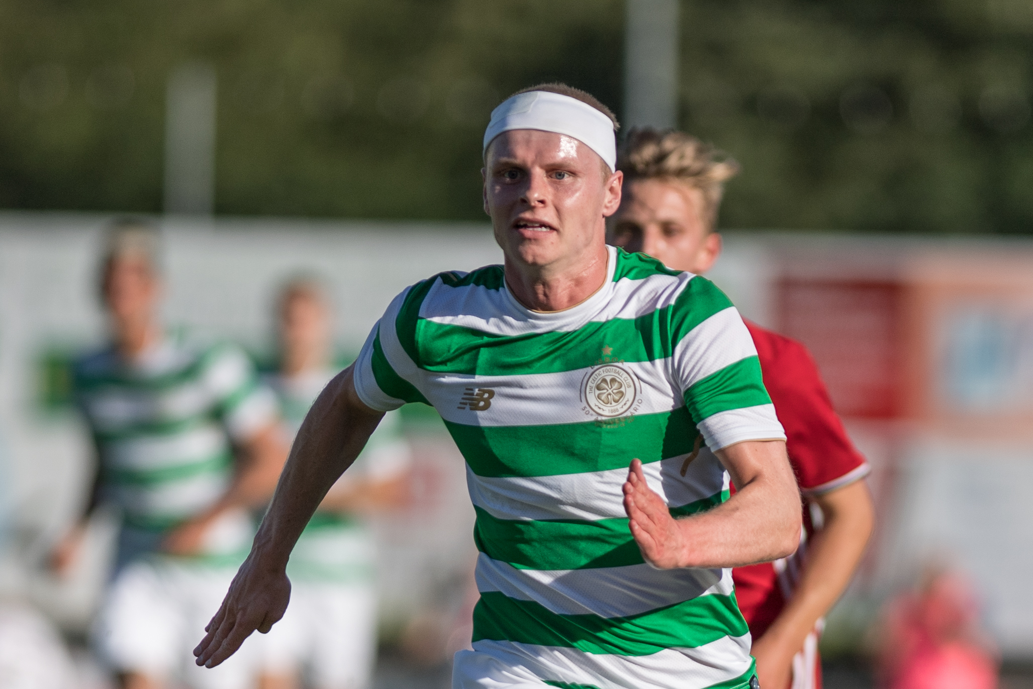 1/7/2017, Amstetten, Austria, sports, soccer, Tipico Fussball Bundesliga - preparation match SK Rapid Wien vs Celtic Glasgow. Image shows Gary Mackay-Steven (Celtic FC).